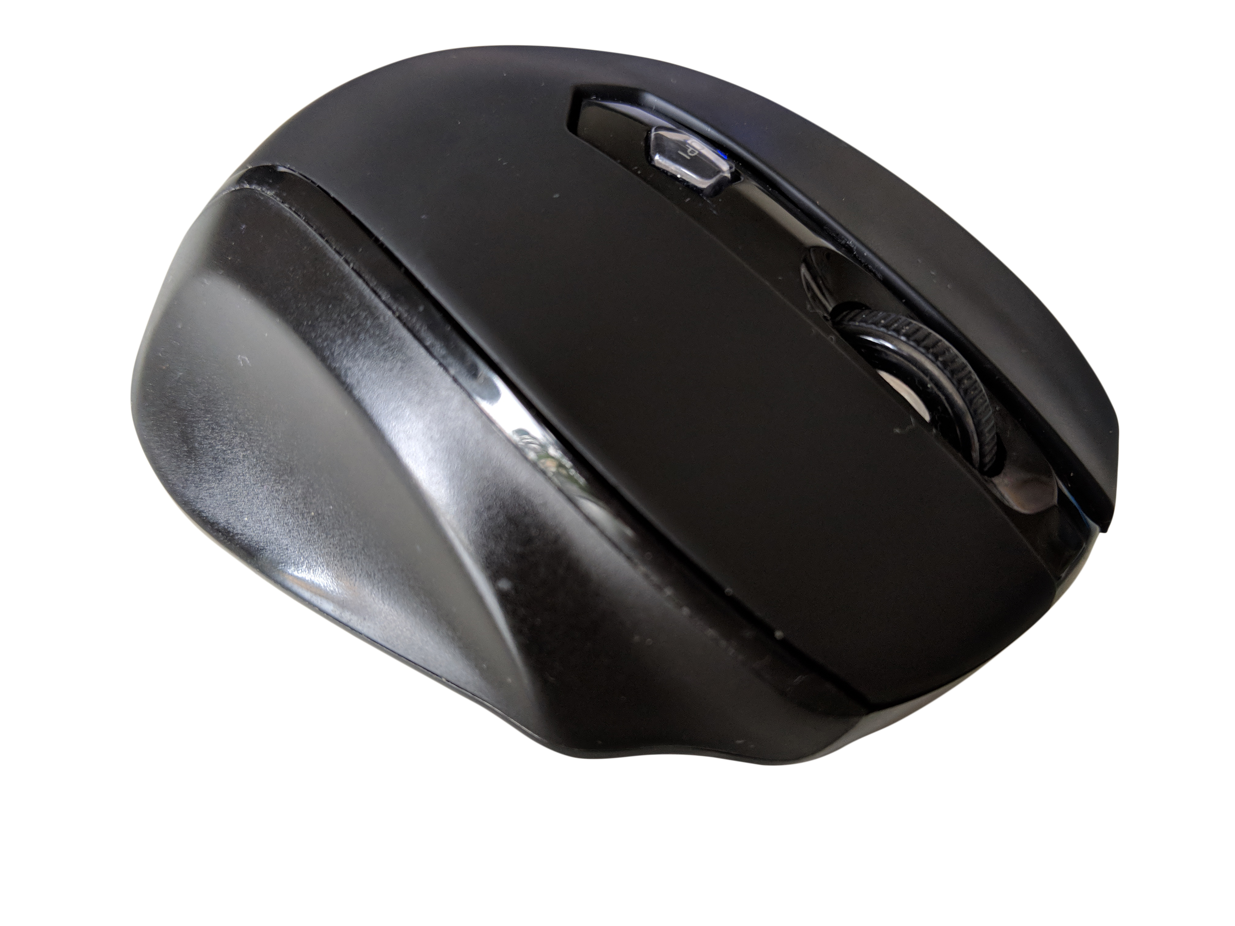 A wireless computer mouse on a white background.